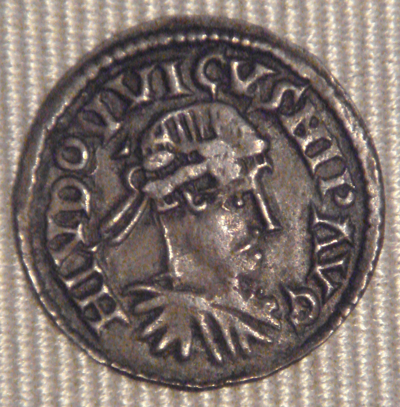 Louis_le_Pieux_denier_Sens_818_823.